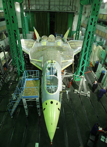 Photo a sukhoi fighter assembly plant in 1st March of 2010.